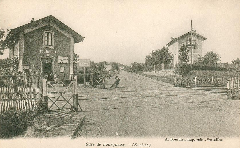 The old railwaystation in Fourqueux, France.